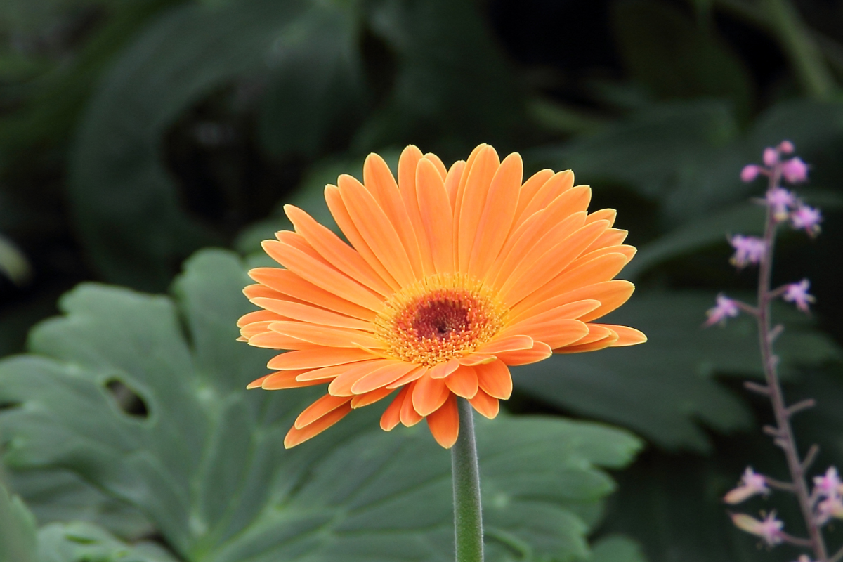 I am an indispensable element in wedding parties in some places where I carry a meaning of helping the bridegroom. On International Children’s Day, we, especially the light pink and the faint yellow ones, are made into all kinds of childish flower arrangements, indicating joyful and carefree childhood.